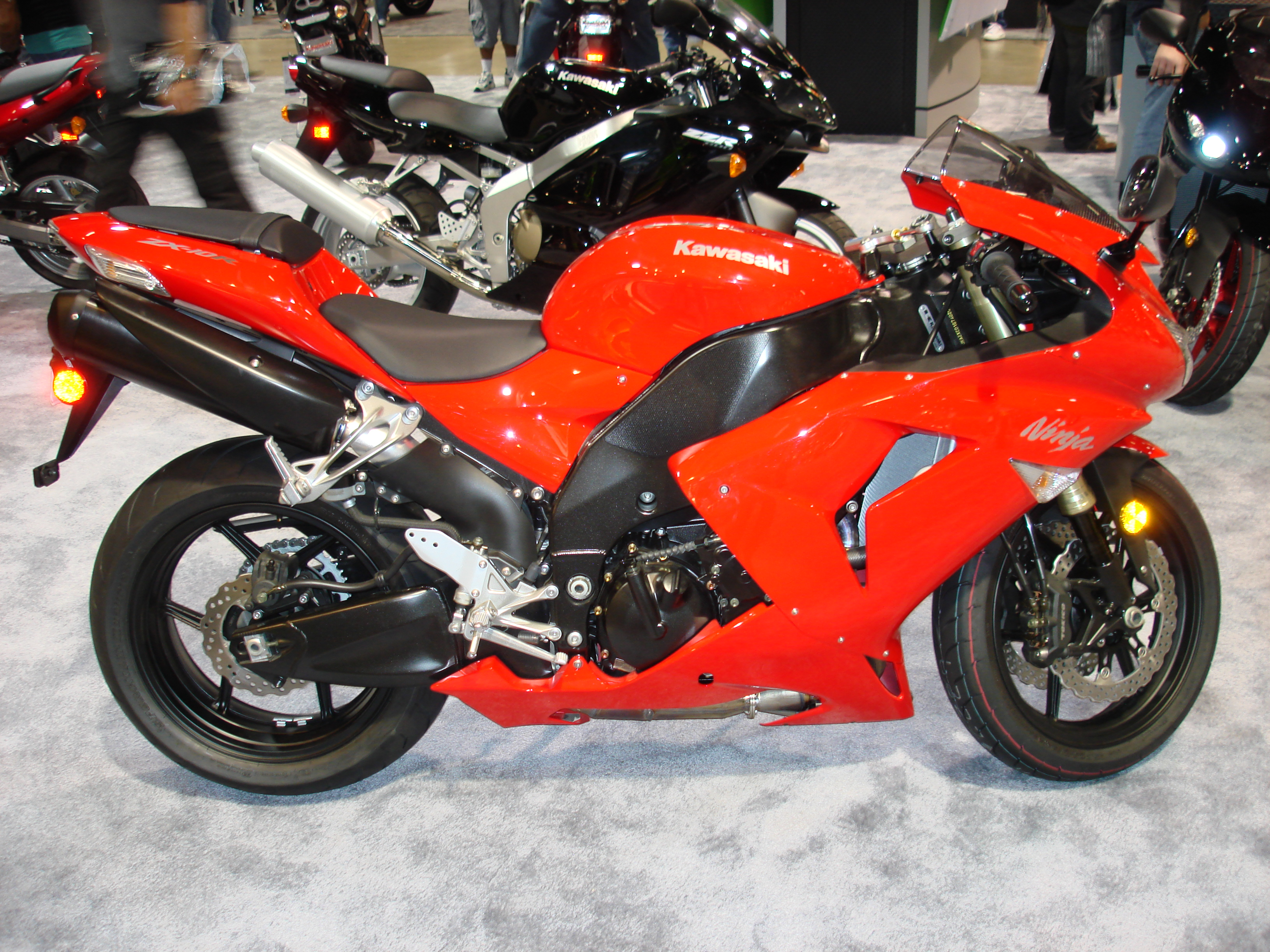 2007 Kawasaki Ninja ZX-10R on display at the 2006 International Motorcycle Show in Long Beach, CA. Camera used was a Sony Cyber-shot DSC-W100.